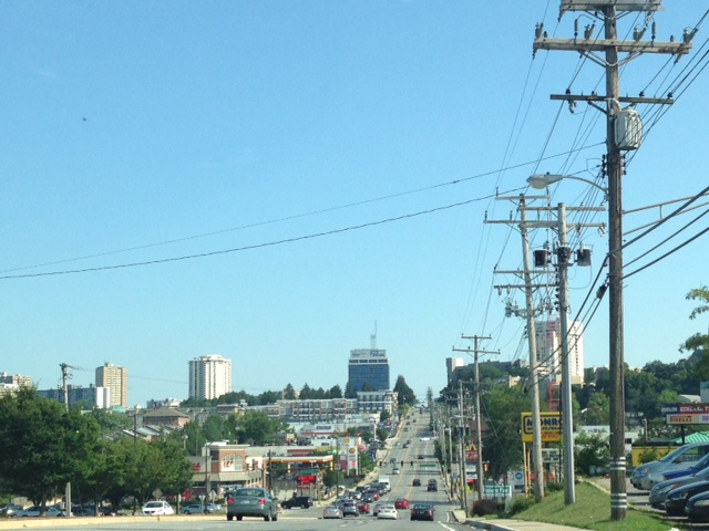 Skyline of Towson, MD from York Road (looking southeast).